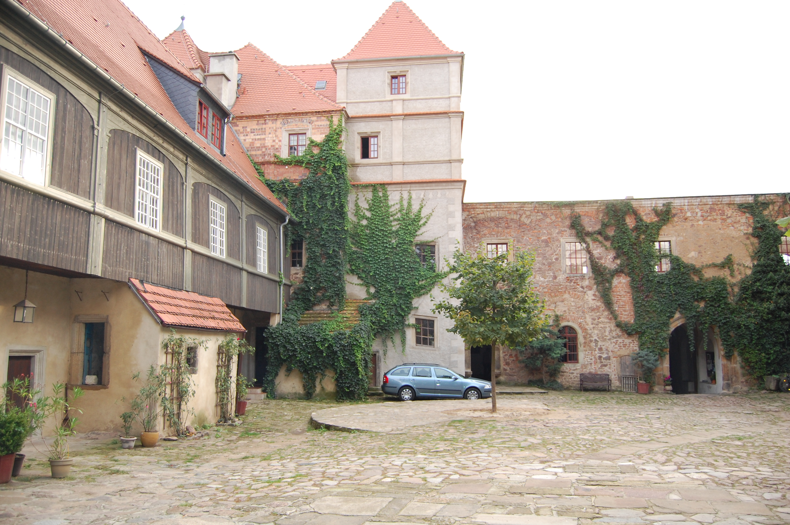 Scharfenberg Castle in Scharfenberg, Germany (near Dresden)